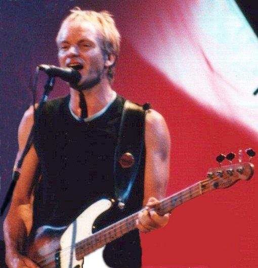 Edited version of File:Sting2.jpg